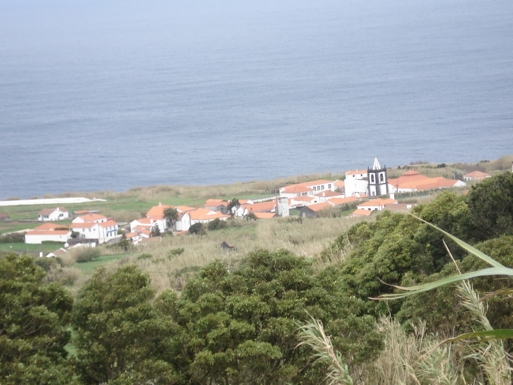 Village of Cedros (Praça), as seen from the Miradouro of Santa Bárbara, island of Faial, Azores